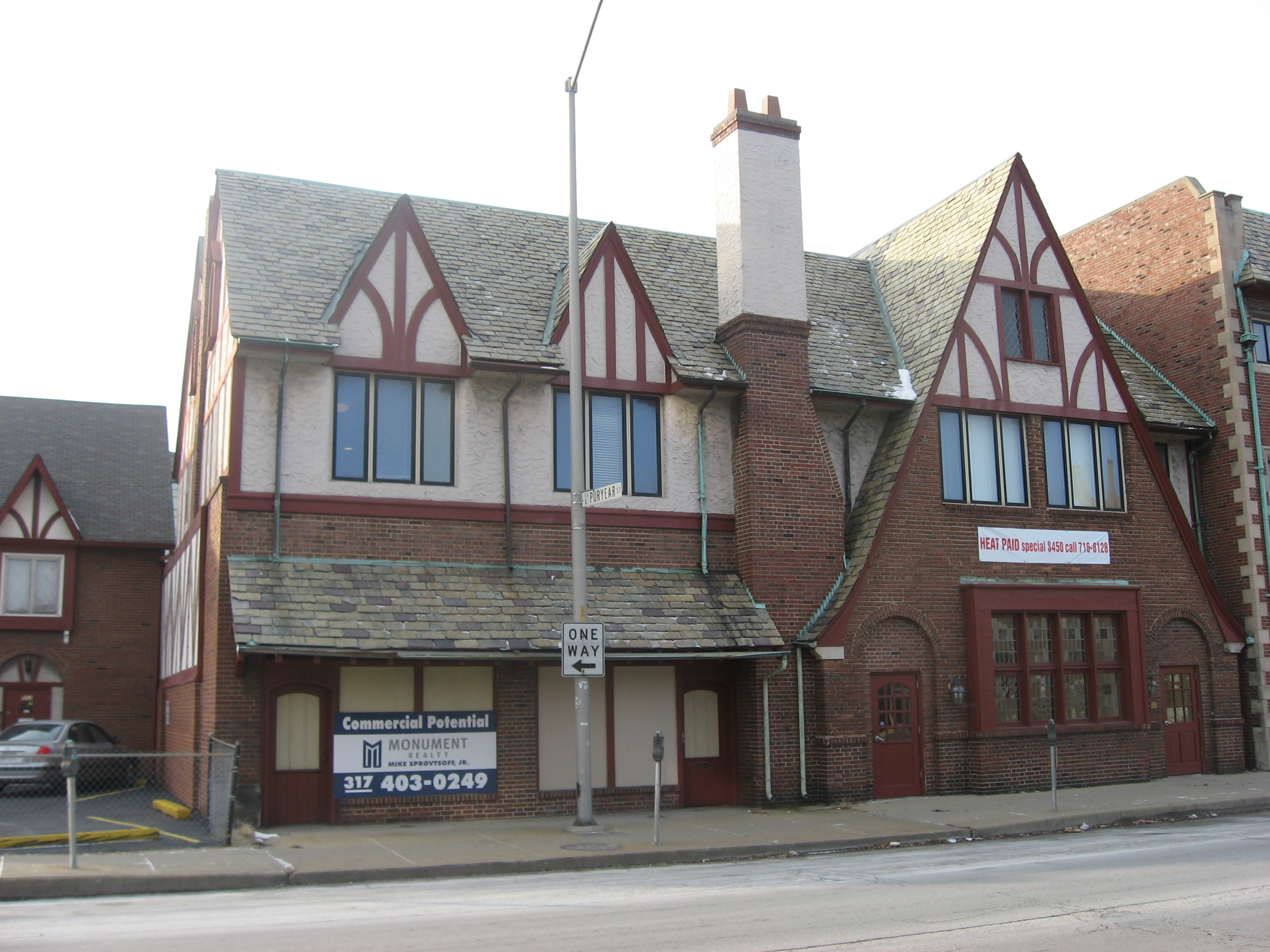 Front of the Sheffield Inn (also known as the "Sheffield Apartments"), located at 956-958 N. Pennsylvania Street in Indianapolis, Indiana, United States. Built in 1927, it is listed on the National Register of Historic Places.